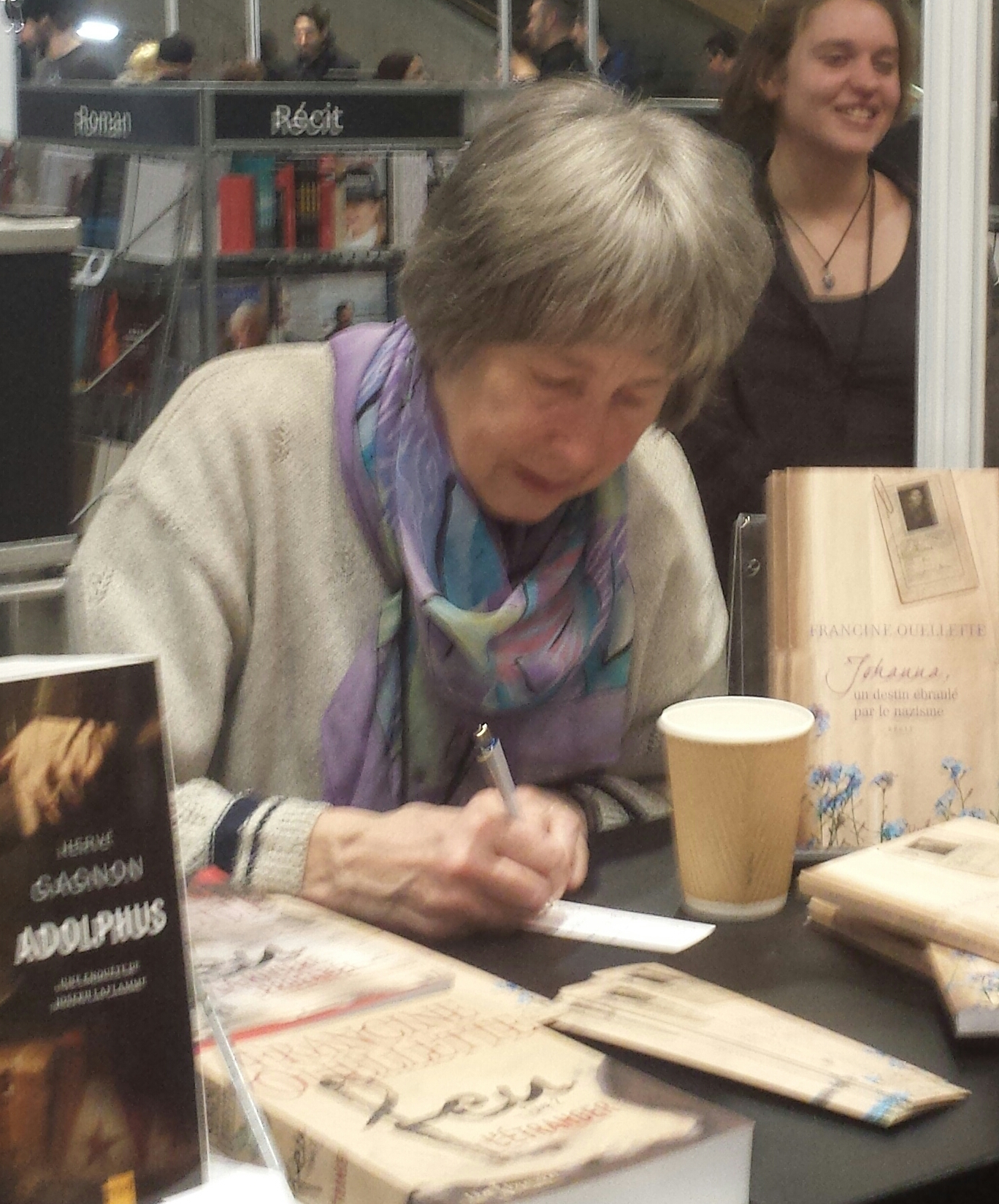 Francine Ouellette photographed photographed in Montréal , Québec, Canada at the Salon du livre de Montréal 2018.